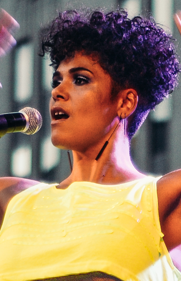 Zaki Ibrahim at the Unity Festival 2016